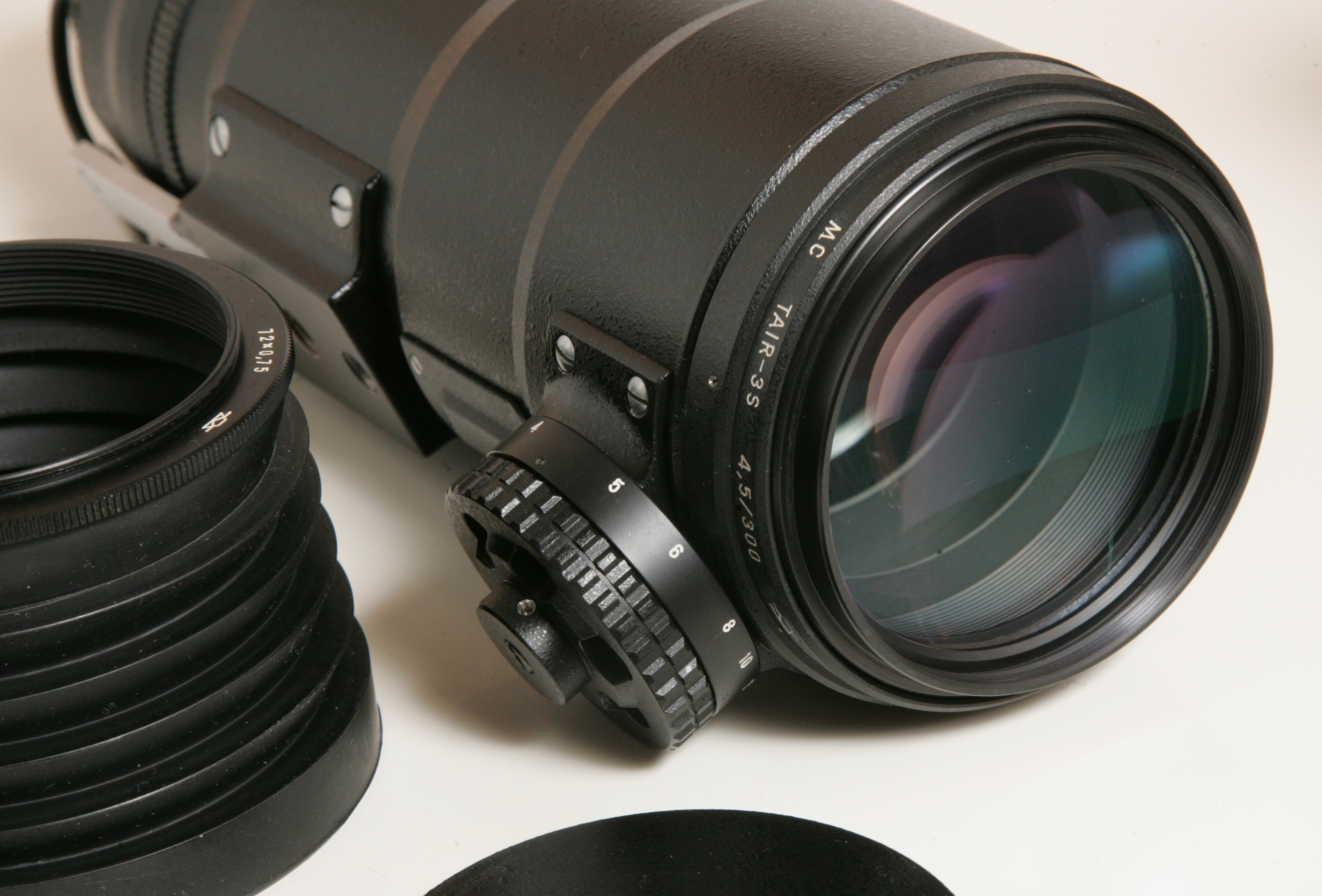 MC Tair-3S telephoto lens for 'Photosniper' gun